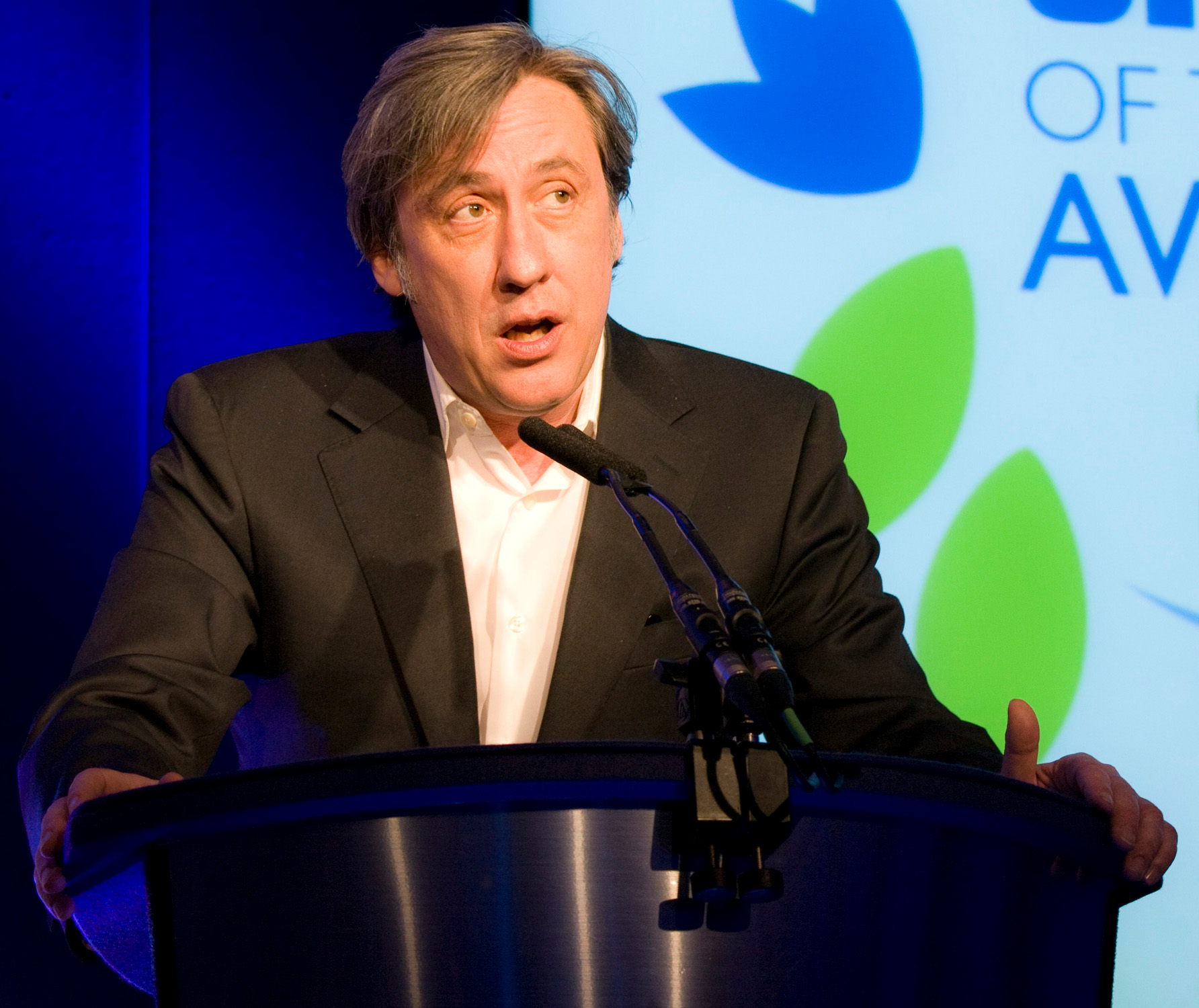 Andrew Graham-Dixon presenting the Grower of the Year Awards 2012. Cropped.